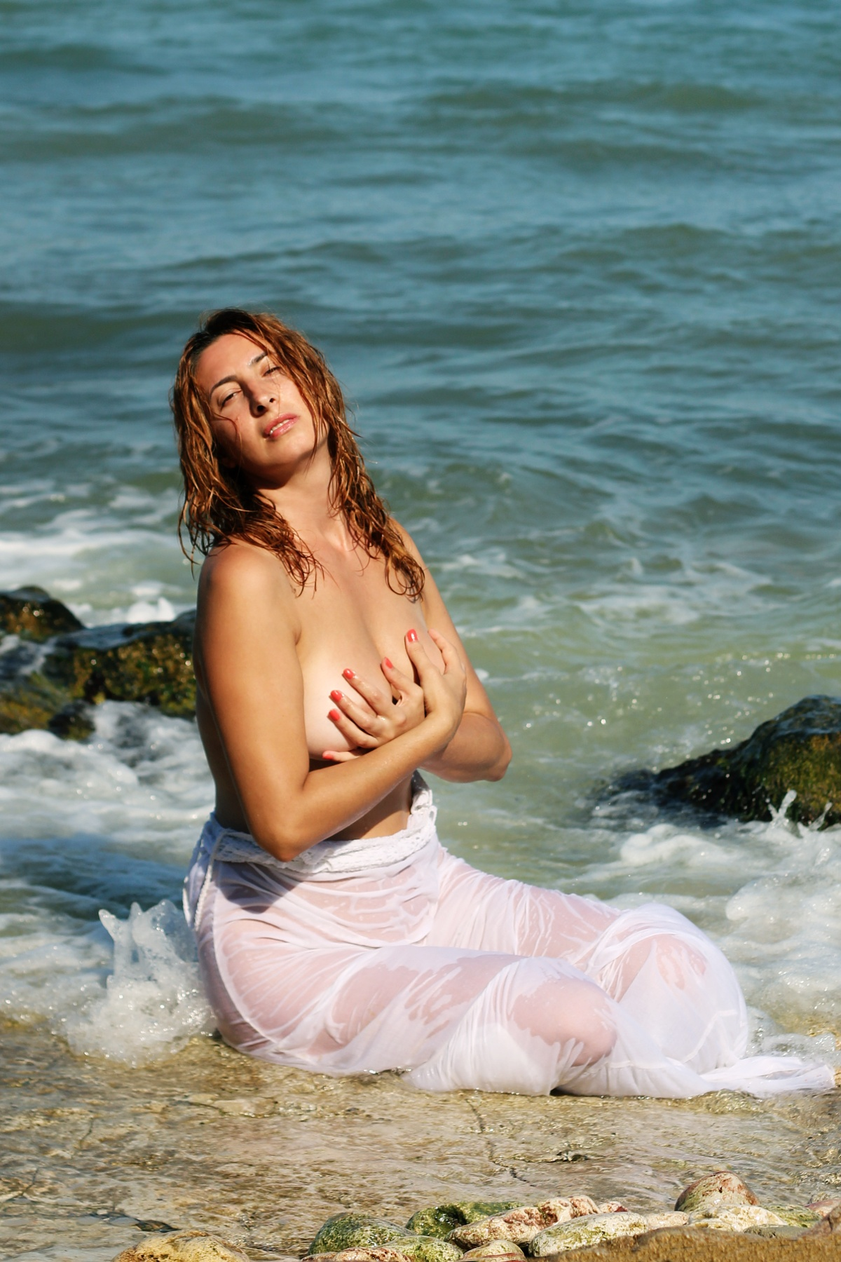 Handbra.